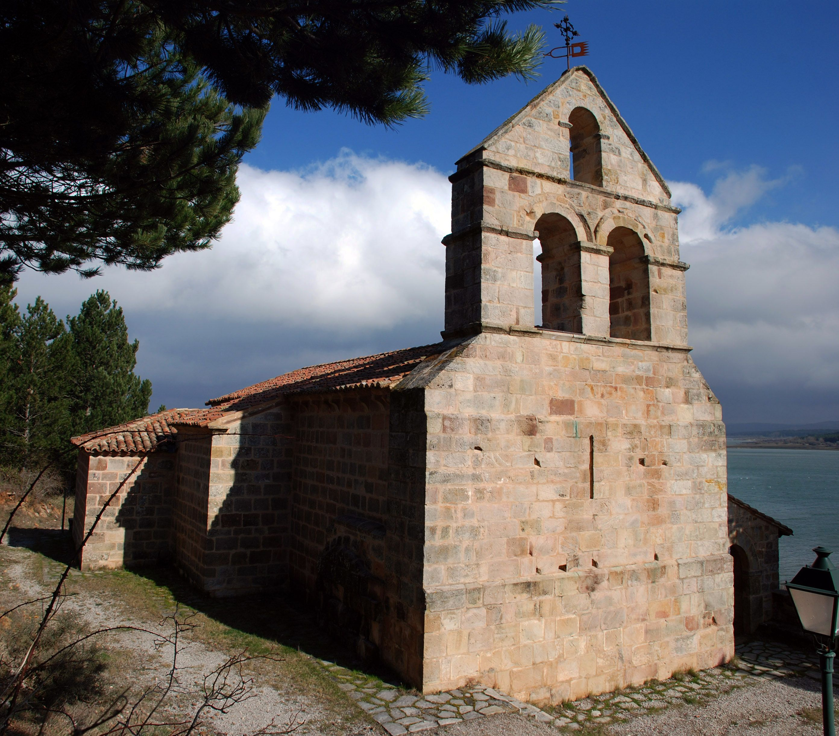 Church of St. Andrew in the disappeared village of Frontada (Palencia, Castile and León) The old village of Frontada was about 4 km west of Aguilar de Campoo, today access should make local roads and paths of about 12 km and bordering the reservoir of Aguilar, whose construction, in the mid 1960s, fled this palentinian village. At the foot of the nave stands the steeple, seating, composed of a broad and solid body, chamfered, shoulders with close central saetera, which follows another square leg height, that part and ends in surround, fascia with listel and chamfer profile. In this open two arch with impostas, also surround the dowels, which were trasdosadas by respective chambranas, today maimed on the side facing the West starting embrasures. The auction is sprocket with albardilla identical profile to the impostas flat, framing another window of very similar invoice, but not chambrana.